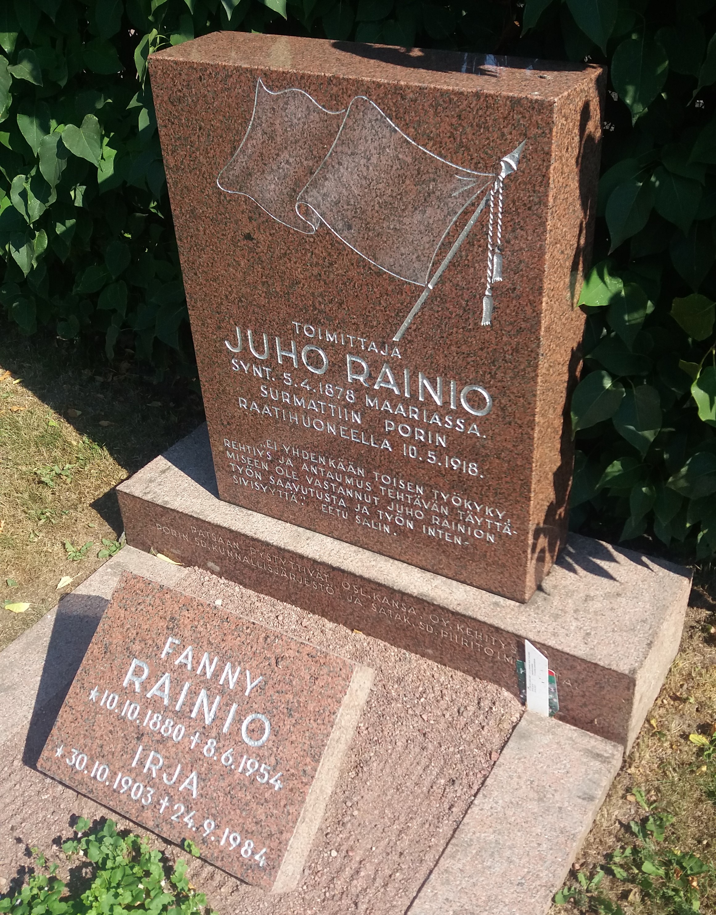 Memorial of the Finnish journalist and member of parliament Juho "Jussi" Rainio (1878–1918) in the Käppärä Cemetery, Pori, Finland. Rainio was executed in the Finnish Civil War by the White Guards.